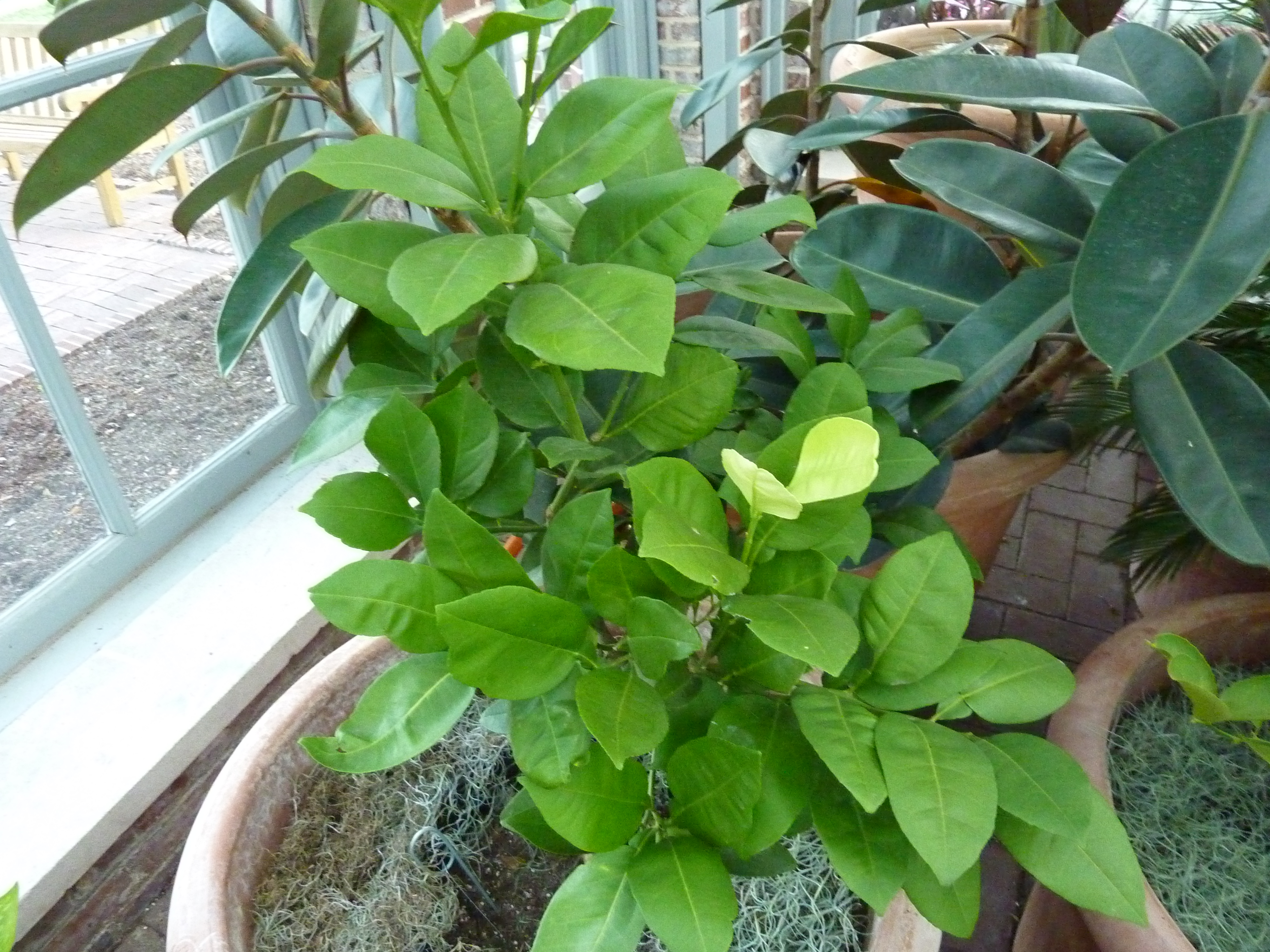 Grapefruit, Citrus paradisi 'Oroblanco', in the Linnean House of the Missouri Botanical Garden